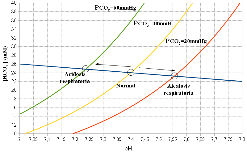 Davenport diagram